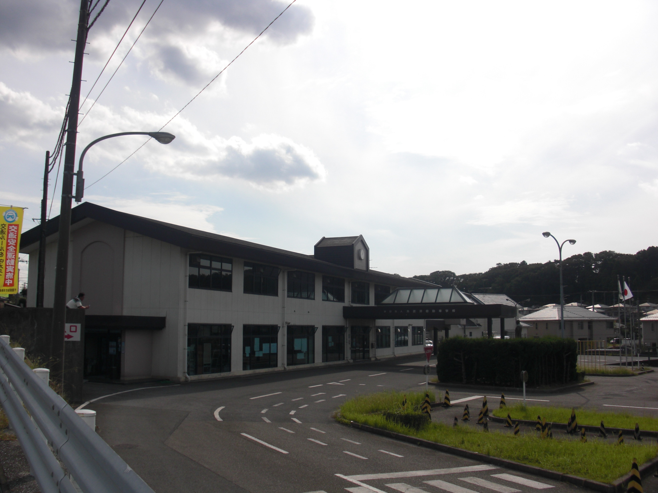 This is a driving school in Chiba, Japan.